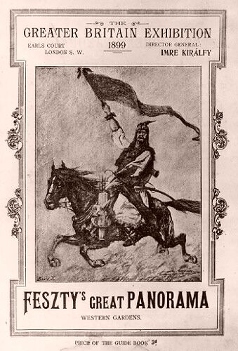 Poster promoting Hungarian painter Árpád Feszty's Panorama, titled the Arrival of the Hungarians at the Greater Britain Exhibition (1899)